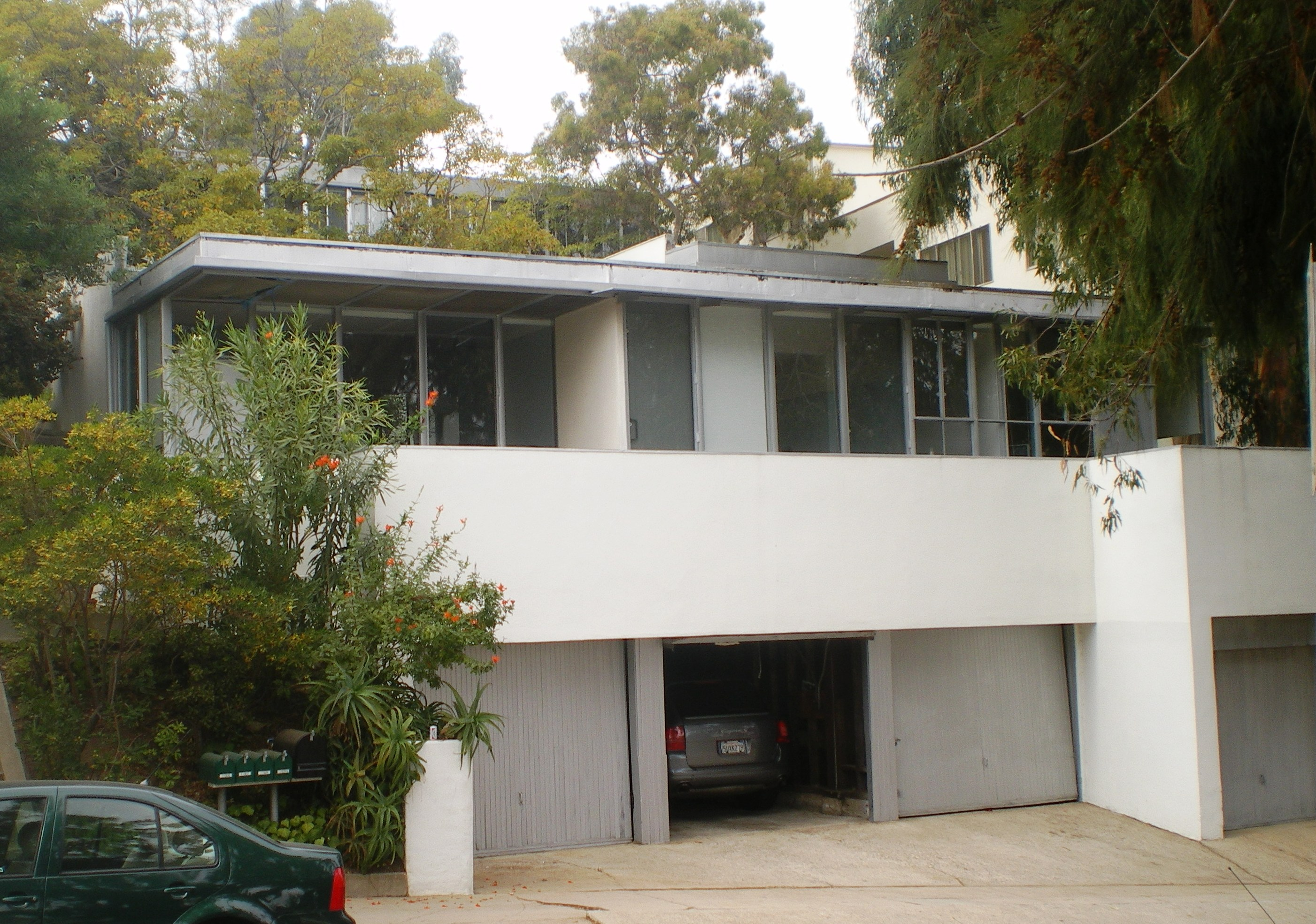 The Strathmore Apartments — at 11005-11013 1/2 Strathmore Drive, Westwood, Los Angeles, California. Designed in the International Modernist style by Richard Neutra in 1937. A Los Angeles Historic-Cultural Monument, and on the National Register of Historic Places in Los Angeles.